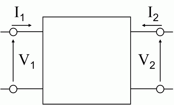 Symbolic representation of a quadripole